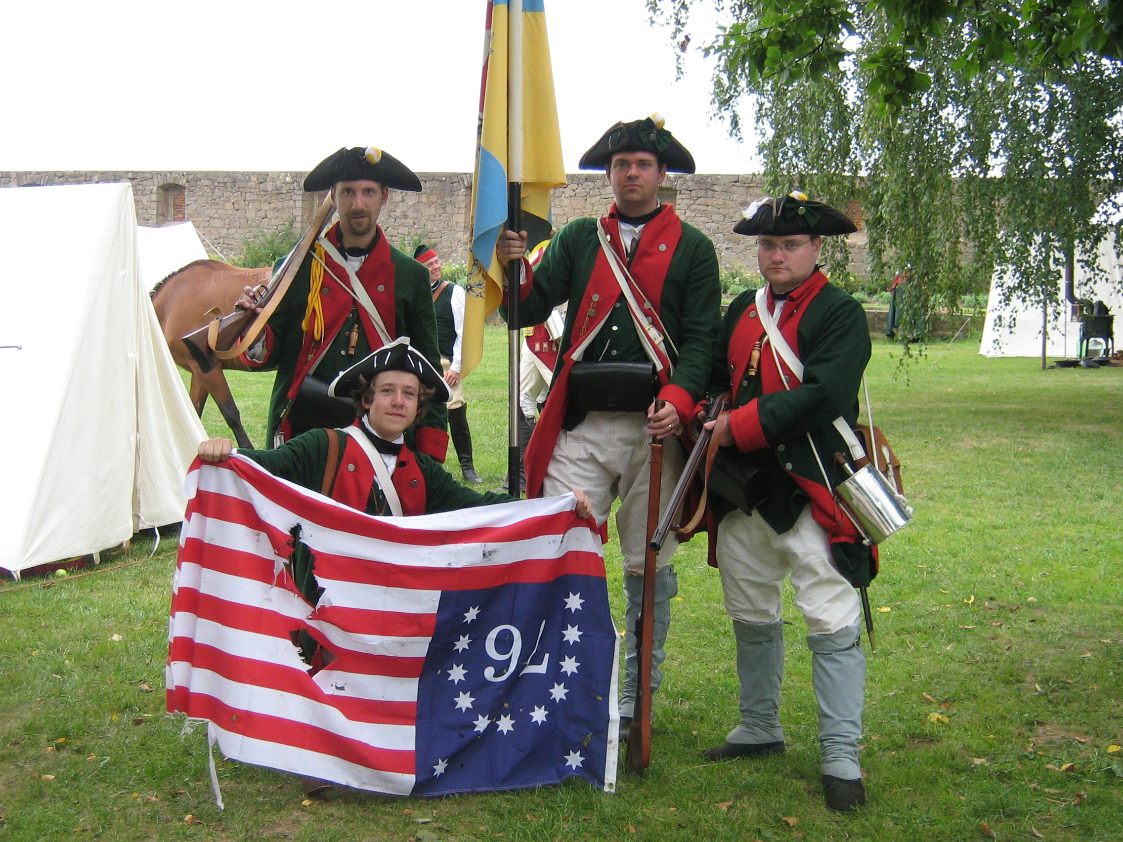 Members of the reenactment group "Braunschweig Hunters of 1776 Association" with "captured" rebel flag, at the 11th "Time Travel" at Castle Fasanerie in Eichenzell on August 10, 2008.